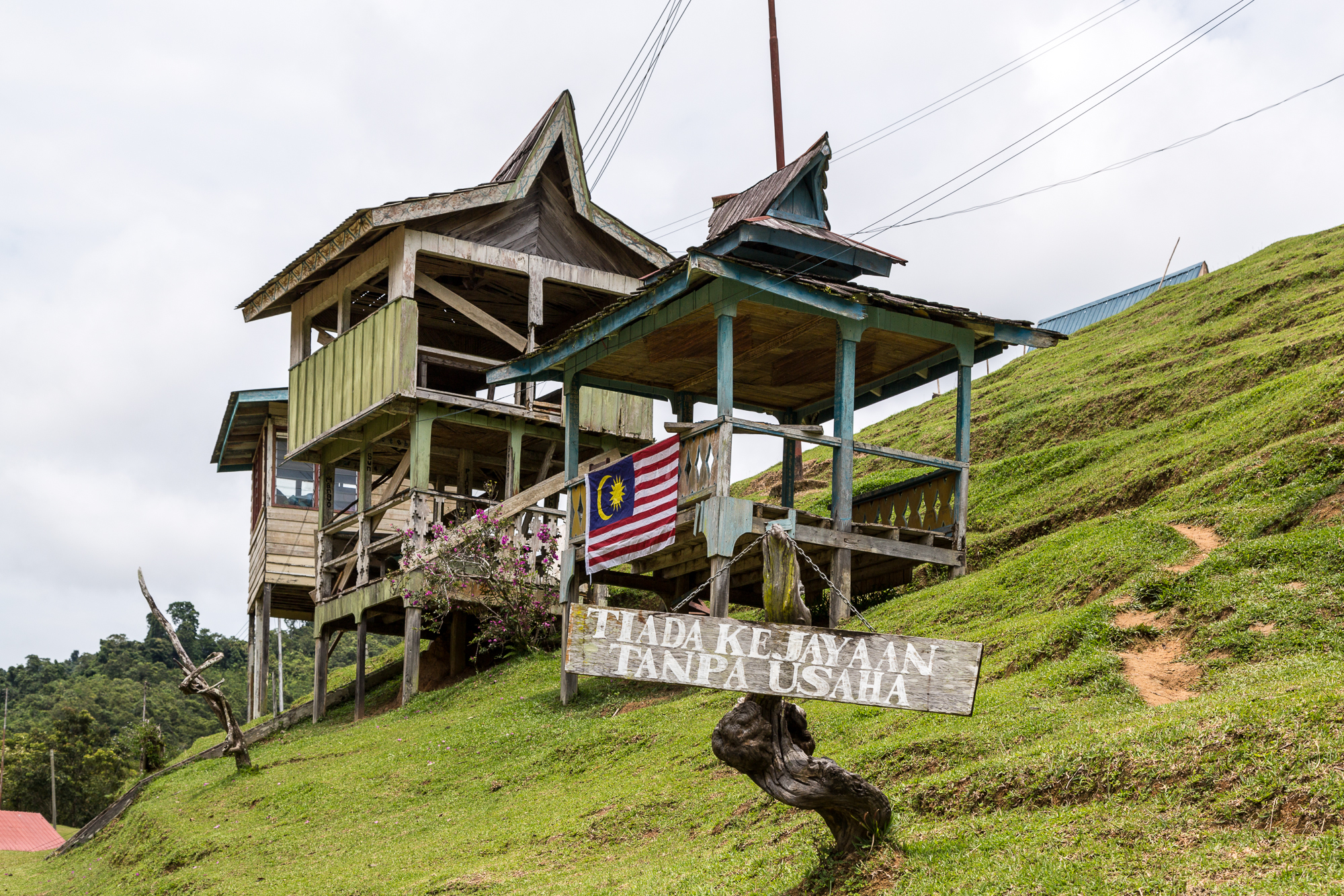 Pensiangan, Sabah, Malaysia: Pondok of Sekolah Rendah Pekan Pensiangan; a place where the students learn traditional skills of craftmanship and roofing